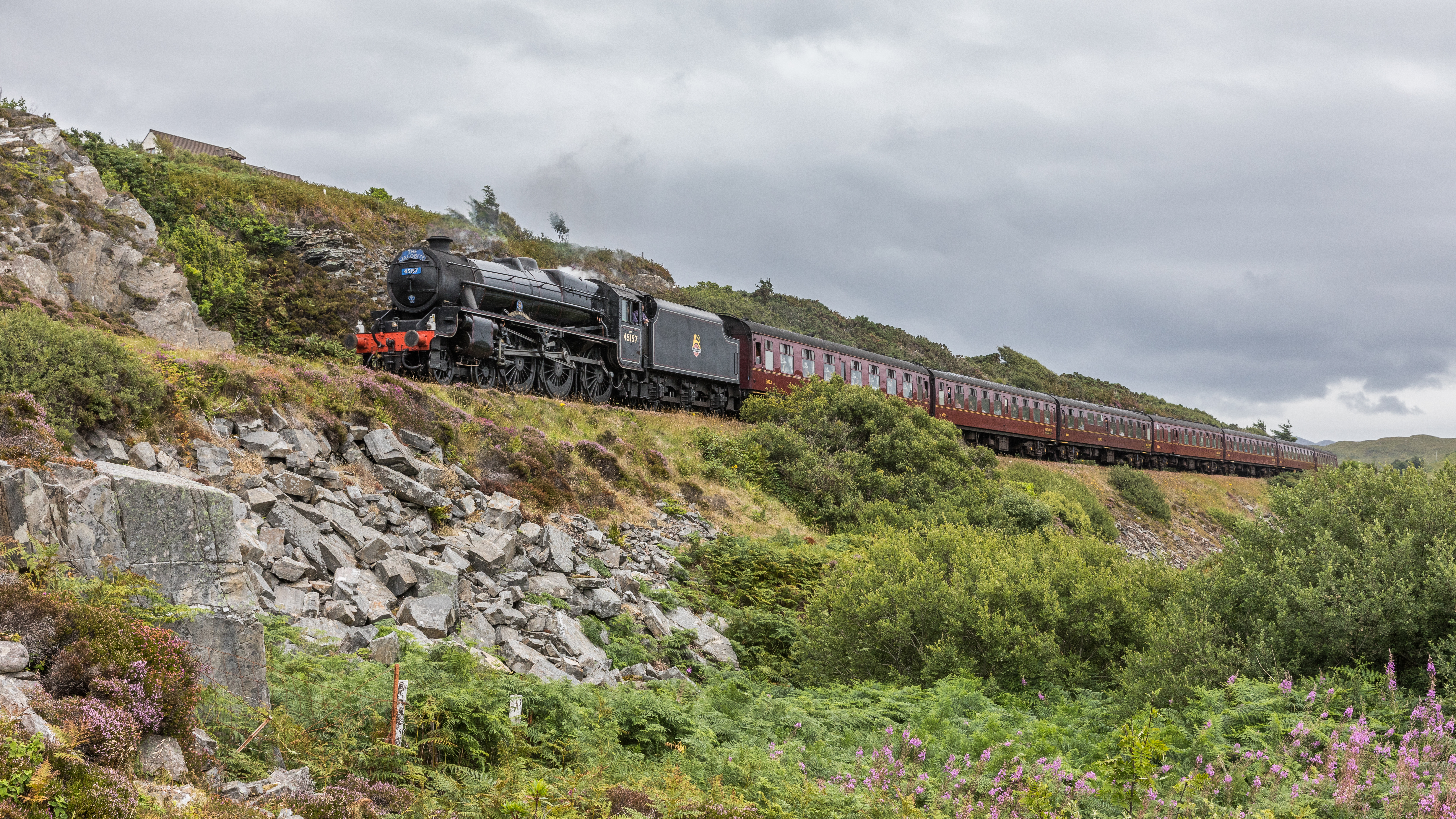 The Jacobite